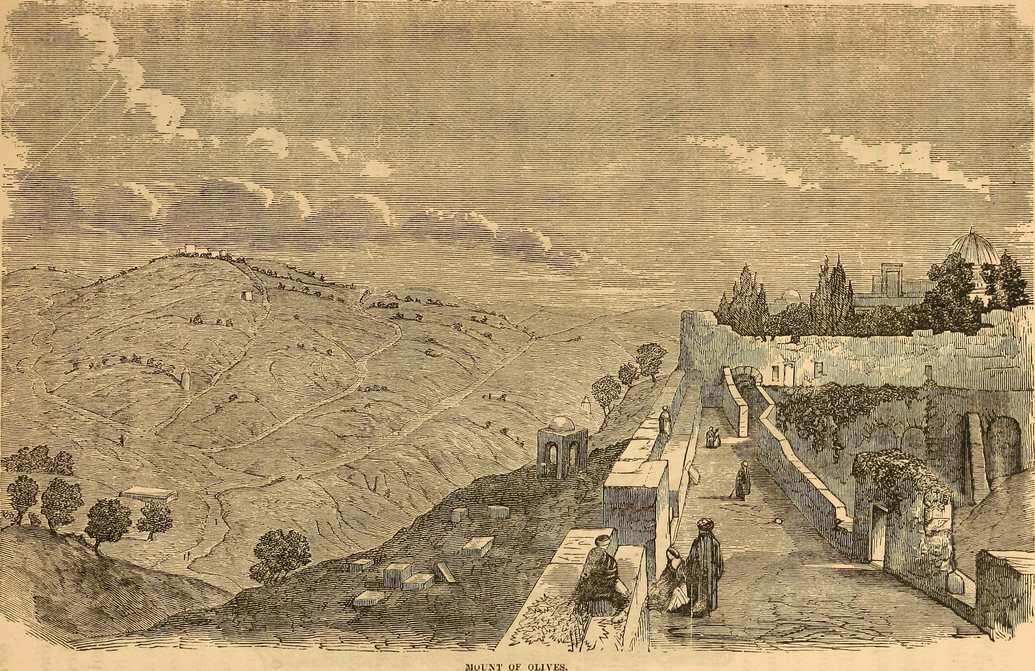 Title: The pictorial Bible and commentator: presenting the great truths of God's word in the most simple, pleasing, affectionate, and instructive manner Year: 1878 (1870s) Authors: Cobbin, Ingram, 1777-1851 March, Daniel, 1816-1909 Brockett, L. P. (Linus Pierpont), 1820-1893 Stretton, Hesba, 1832-1911 Subjects: Jesus Christ John, the Apostle, Saint Bible Publisher: Philadelphia (etc.) Bradley, Garretson & co. Columbus, Ohio (etc.) W. Garretson & co. Text Appearing Before Image: THORN-CROWNED CHRIST. Wliiililillilli iiiilliM-1 ..HP^!!-■■■ ^Iil;::,;-!,!!!, Text Appearing After Image: 698 Matthew. 699 As the cross was placed by the roadside, the mob from Jerusalem thatpassed by it wagged their head in derision at Jesus, and reviled or blas-phemed him, and told him that if he was the Son of God, he ought to showit, by coming down from the cross ! He was, indeed, soon to show that hewas the Son of God, but it would be in another way, after their malice wassatisfied, by rising from his tomb. The chief priests and scribes also unitedin mocking him, and said, if he would come down from the cross theywould believe him. These priests and Scribes knew that he had wroughtwonderful miracles, yet they would not believe him ; and now they hadfilled up the measure of their iniquity, and must bear their guilt. One ofthe crucified thieves also mocked him. At noon-day, called by the Jews the sixth hour, there came on a darkness, which lasted for threehours, and spread over all the land.And at the ninth hour, or threeoclock in the afternoon, Jesuscried with a loud voice, saying, My